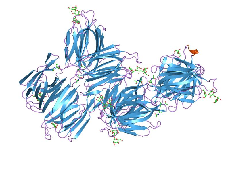 Cartoon representation of the molecular structure of protein registered with 1vbo code.